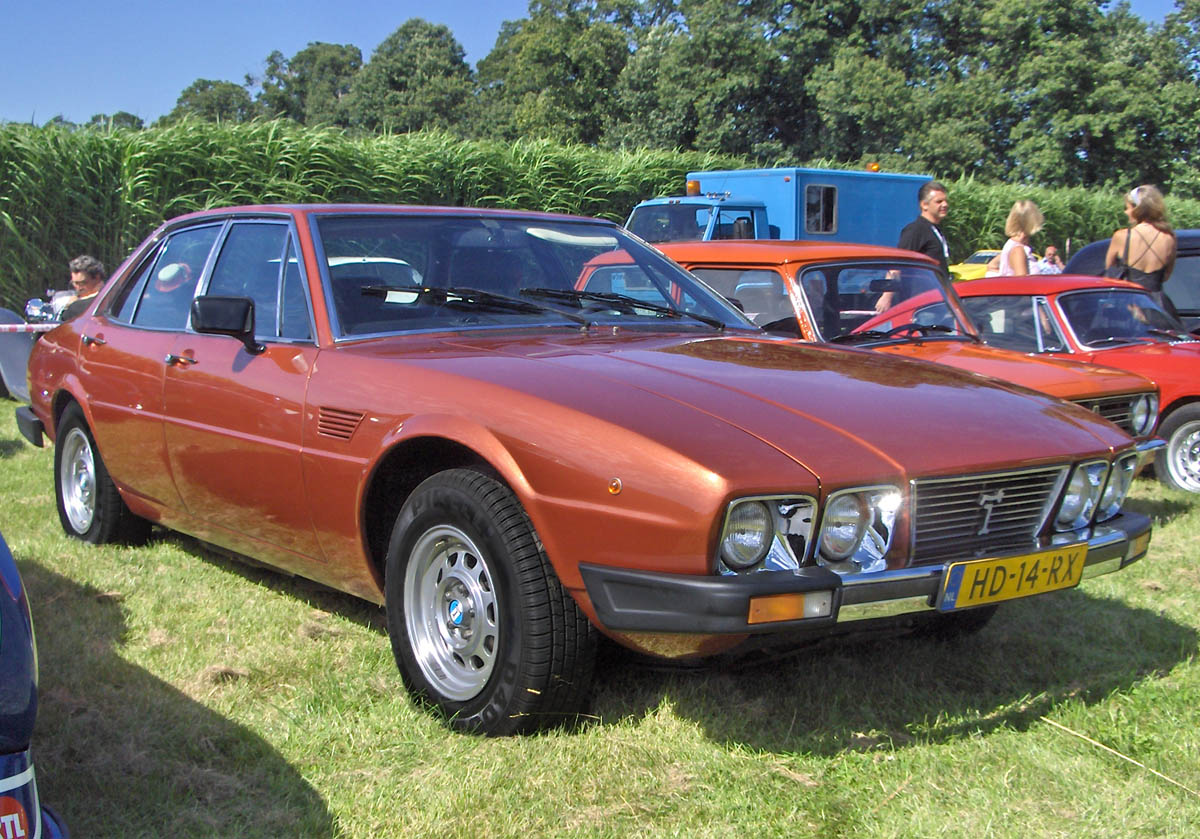 de Tomaso Deauville 1981